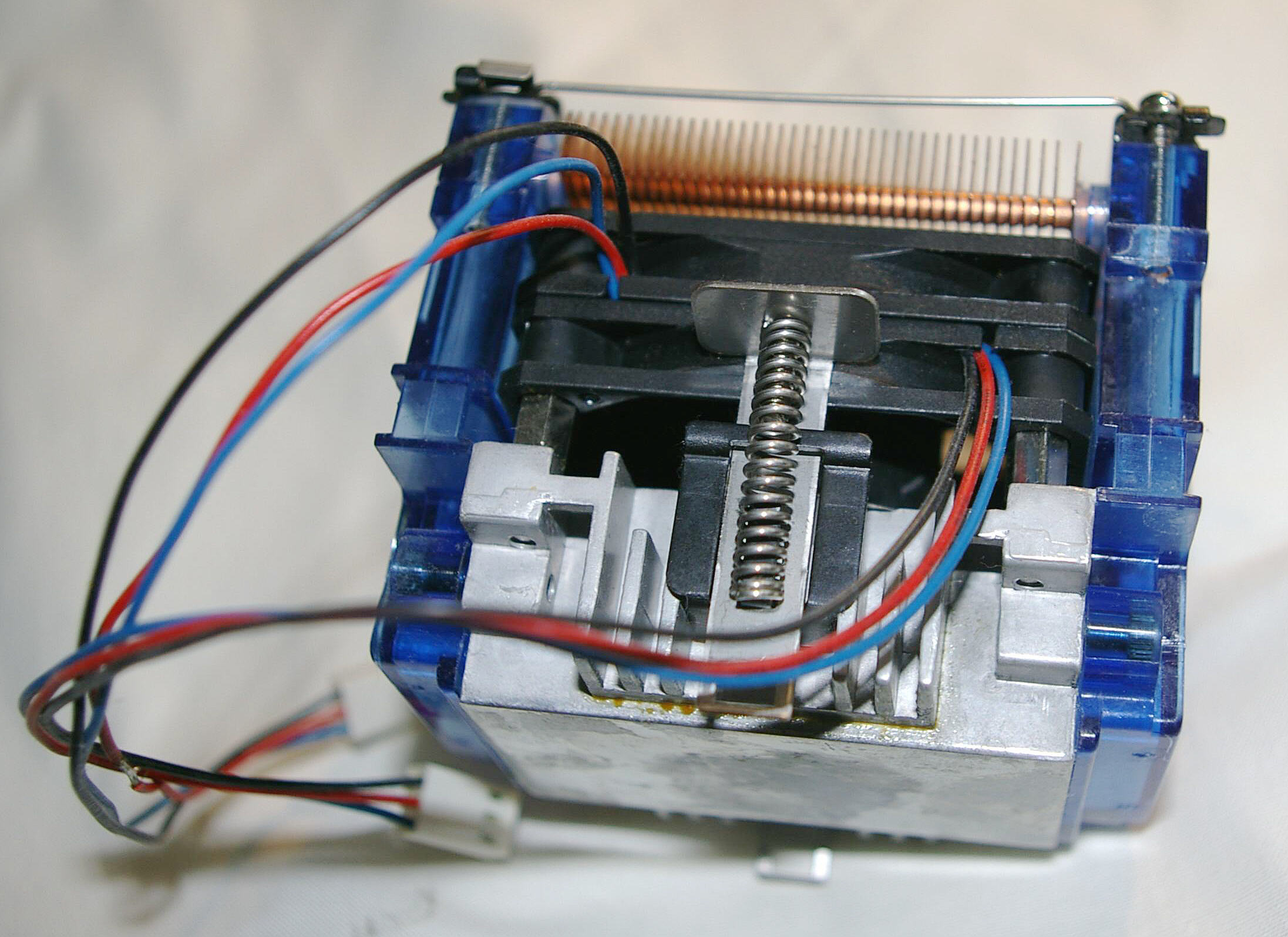 An integrated PC-watercooling system for AMD Duron- and Athlon systems